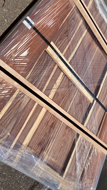 A unit of 8/4 x 7" x 42" Brazilian Kingwood lumber.